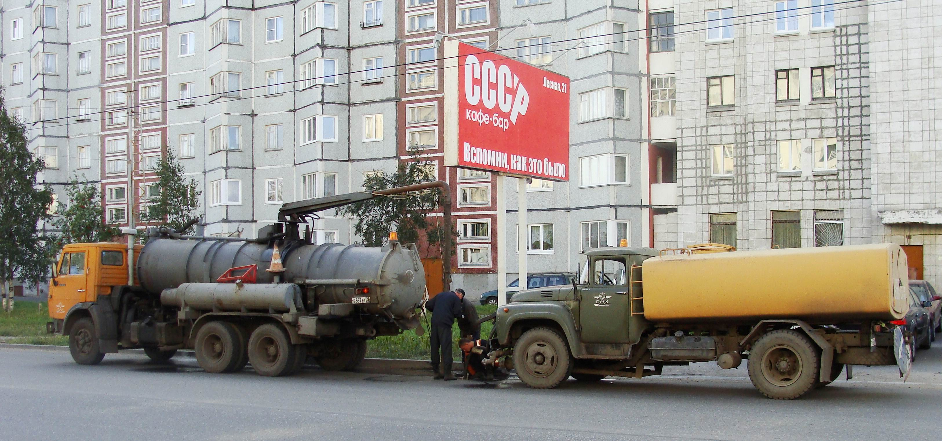 Manhole